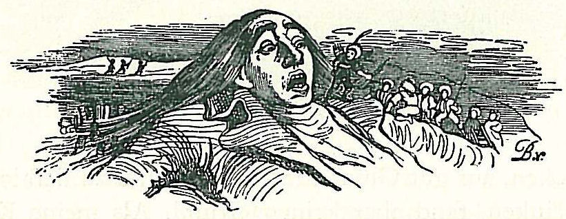 illustration of Jonathan Swift’s novel Gulliver’s Travels by Grandville